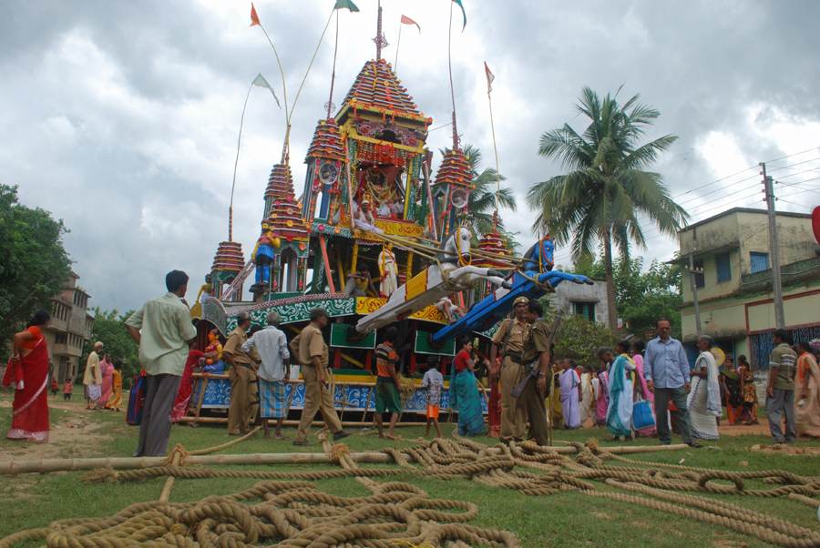 Guptipara Rath Yatra